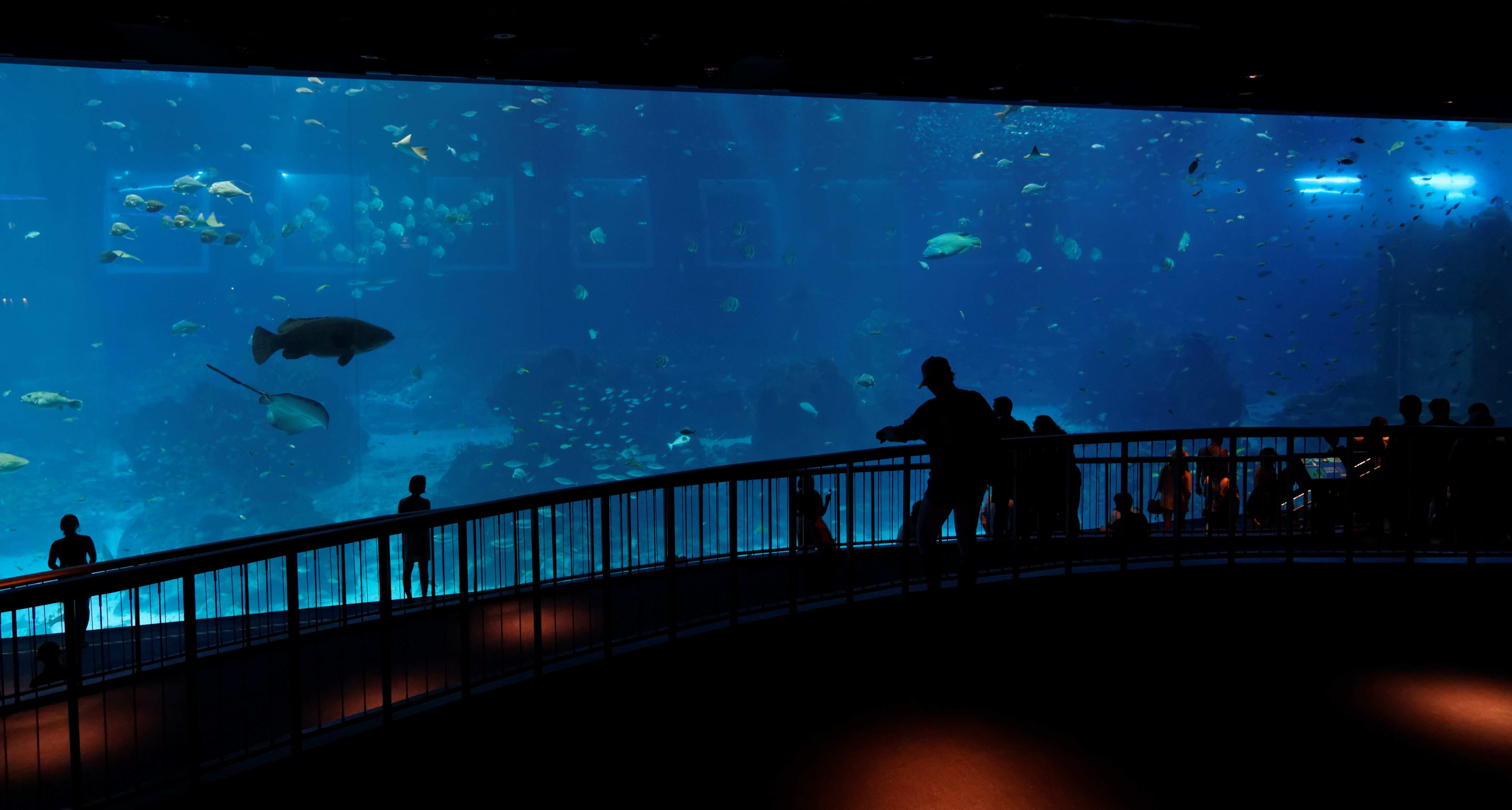 S.E.A. Aquarium, Sentosa Cove